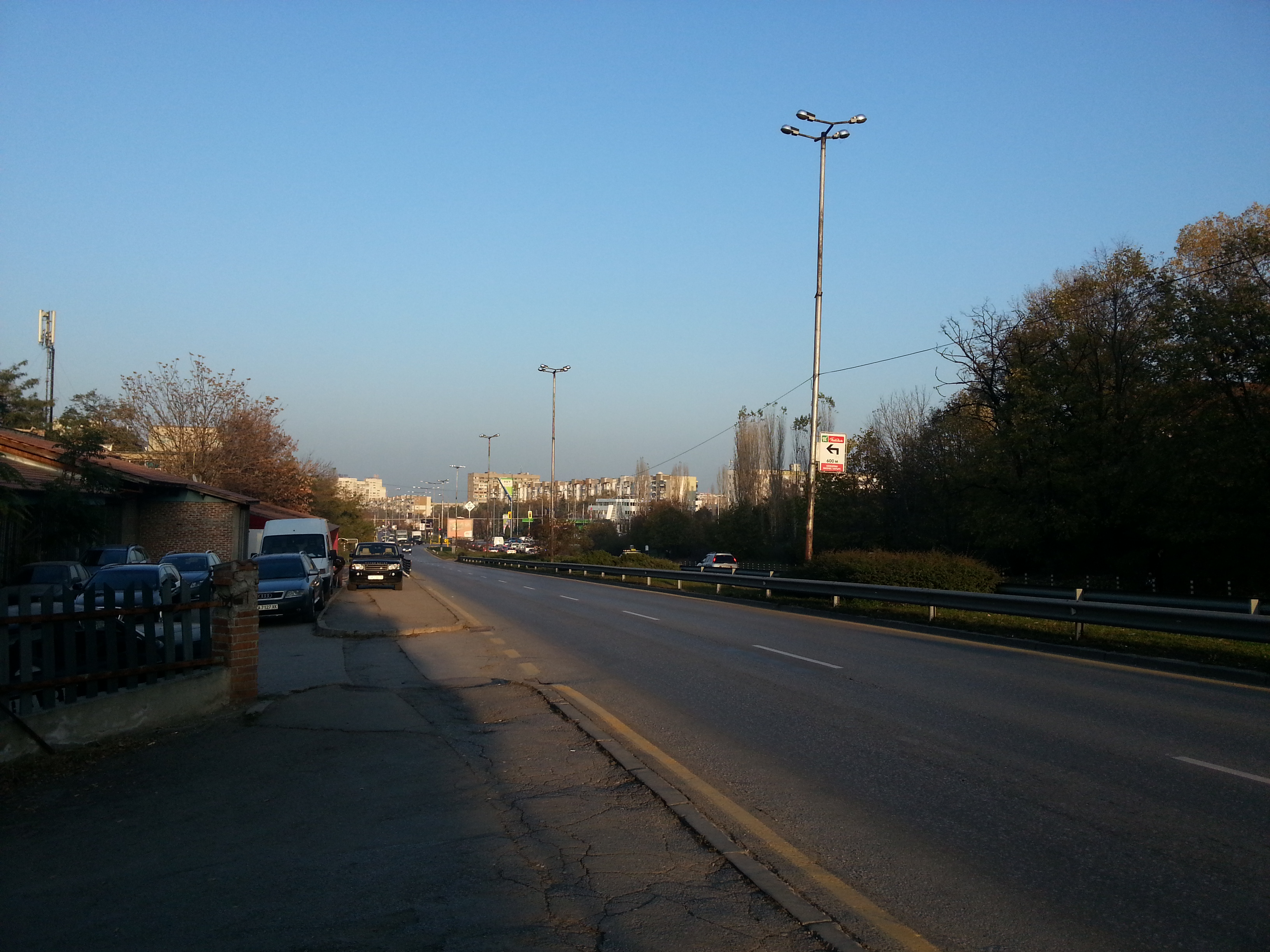 G. M. Dimitrov Boulevard, Sofia